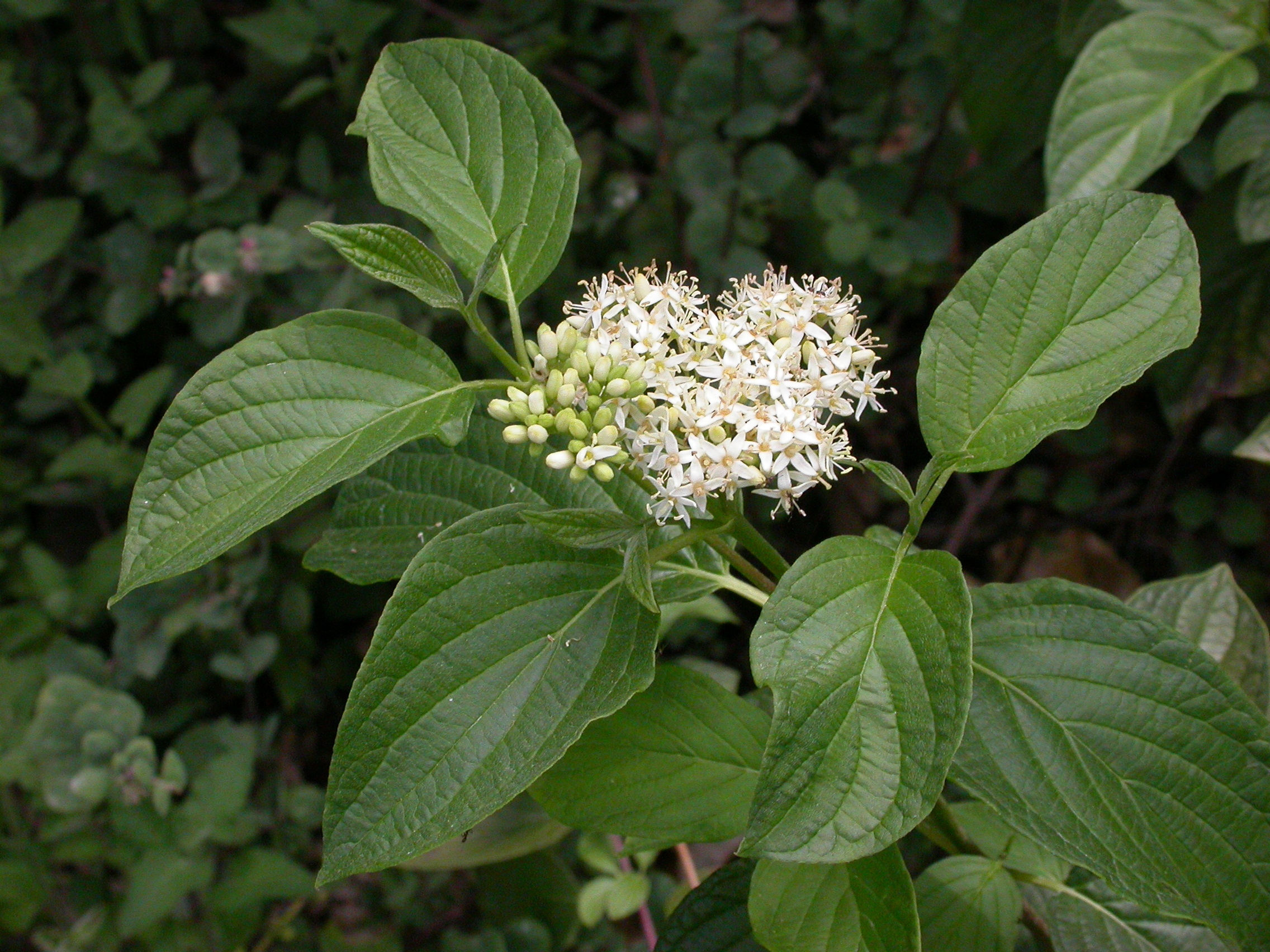 Photographed at BioTrek. Contributed and © by Curtis Clark. Licensed as noted.